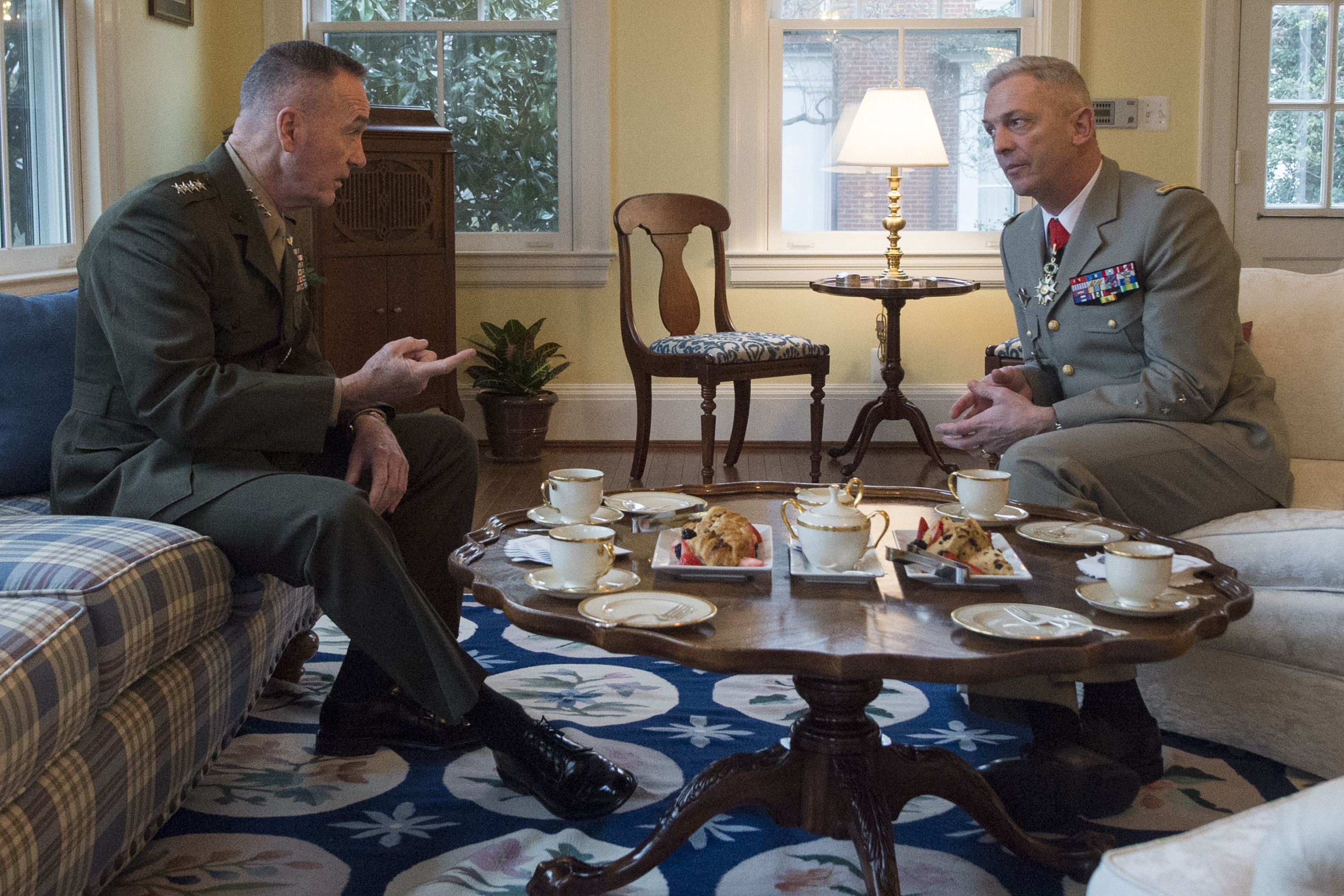 Marine Corps Gen. Joe Dunford, chairman of the Joint Chiefs of Staff, meets with Chief of the Defence Staff of the French Armed Forces François Lecointre for coffee at Quarters 6 in Washington, D.C., during his first official visit Feb. 12, 2018. (DOD photo by Navy Petty Officer 1st Class Dominique A. Pineiro)